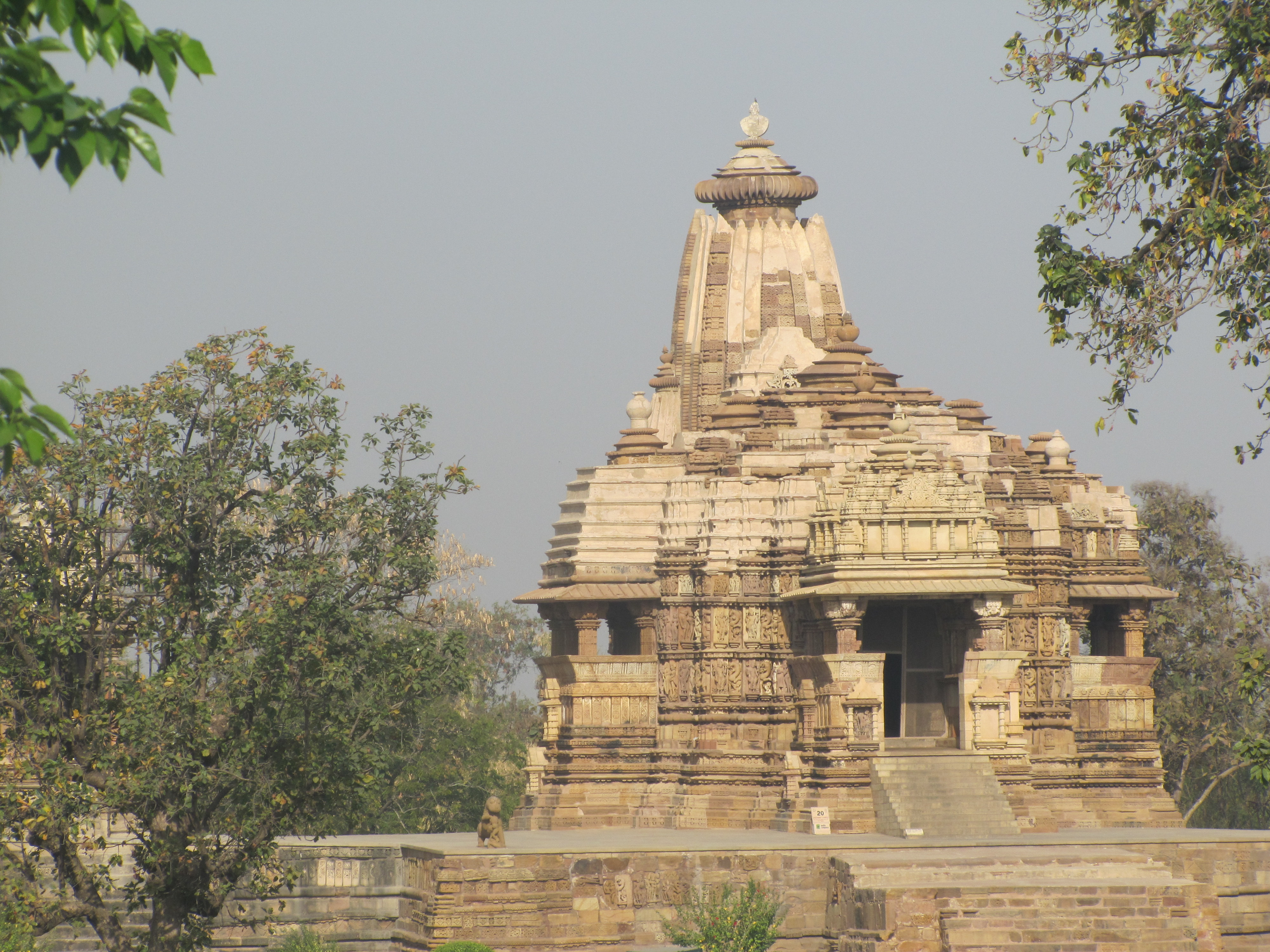 Khajuraho India, Devi Jagdambi Temple